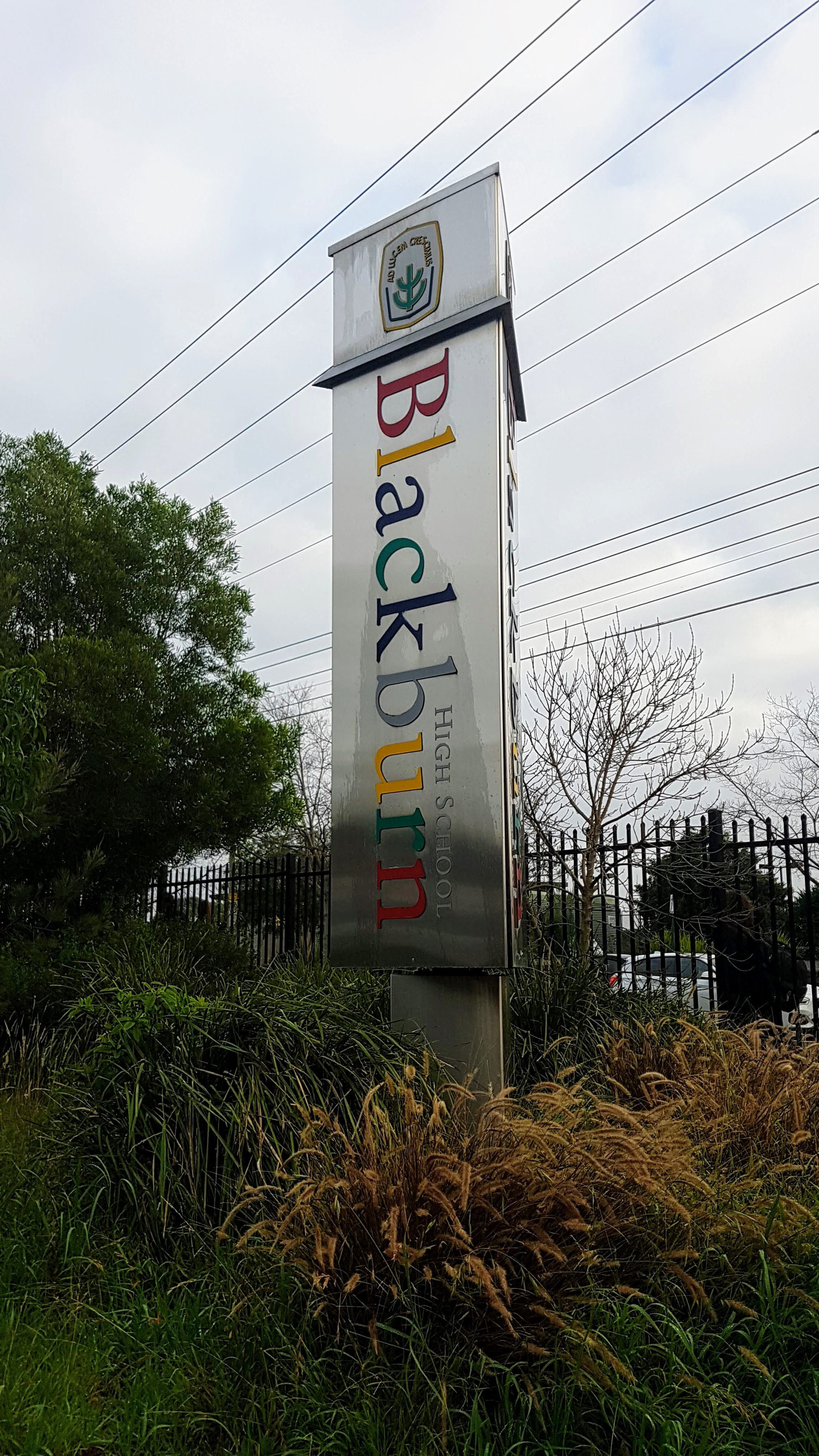 Blackburn Highschool